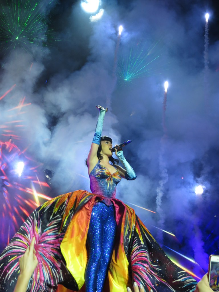 Katy Perry performing "Firework" at SSE Hydro, Glasgow, UK on 17 May 2014.